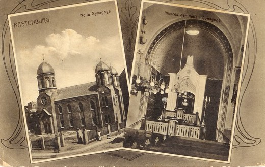 New Synagogue in Kętrzyn